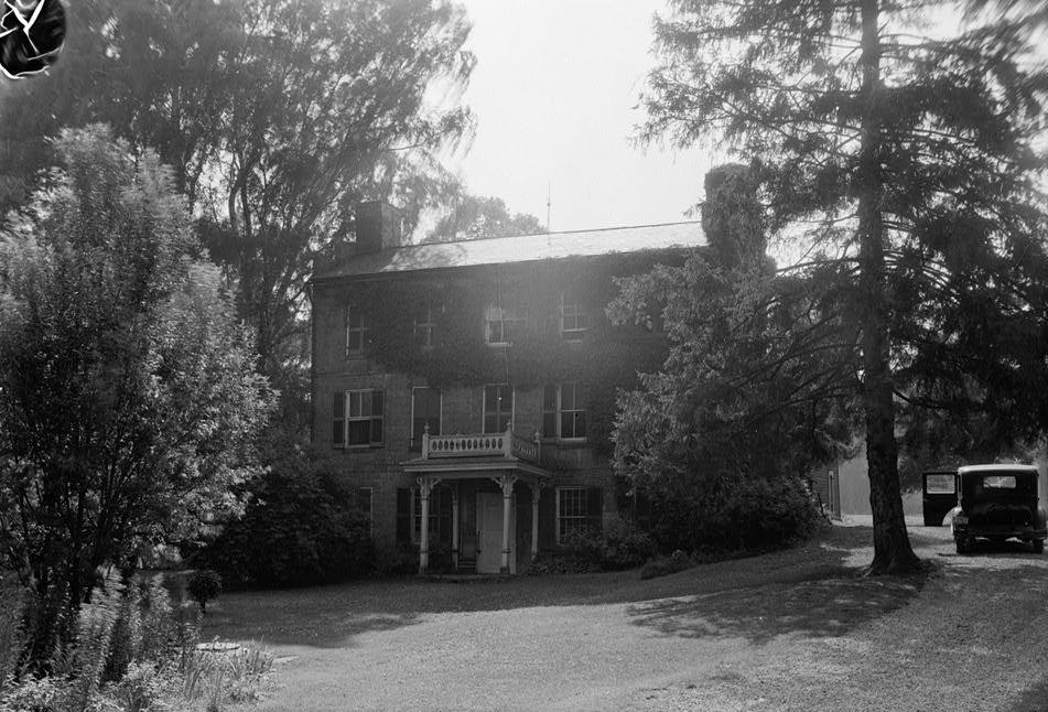 Jonathan Hale House, Oak Hill Road, Ira vicinity, Summit County, OH. The homestead is now part of Hale Farm & Village.